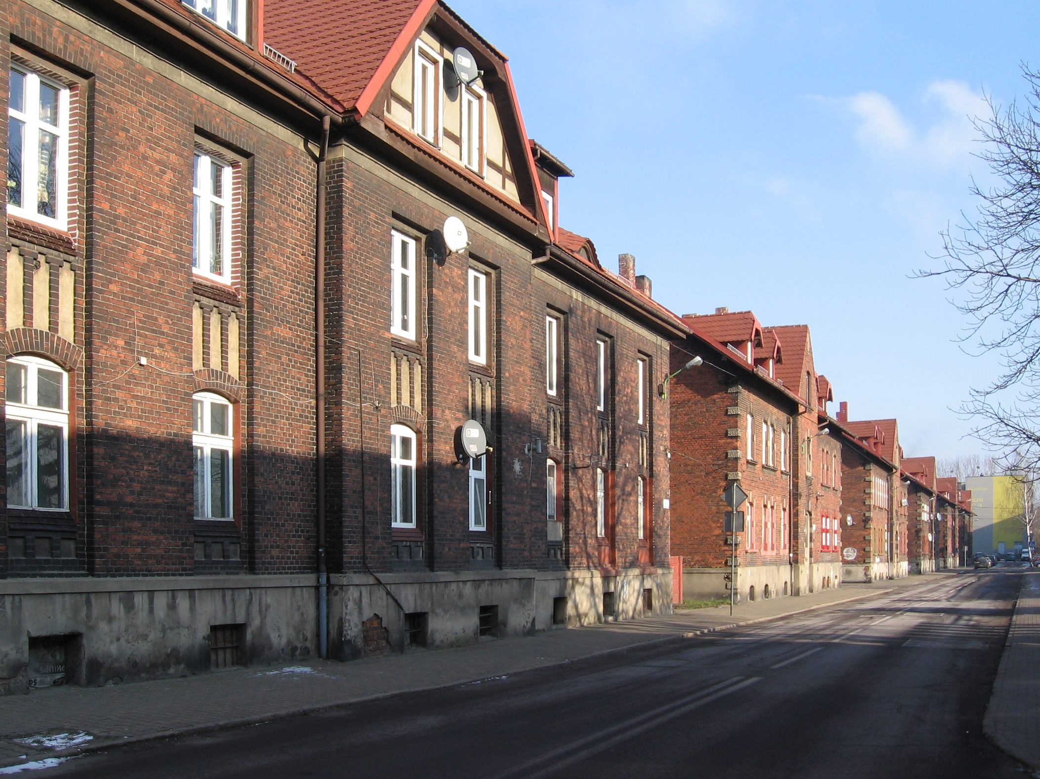 tenement houses in Świętochłowice-Lipiny, Stanisława Moniuszki Street, numbers: 12, 10, 8, 6, 4, 2, built for workers of Silesia Zinc Works